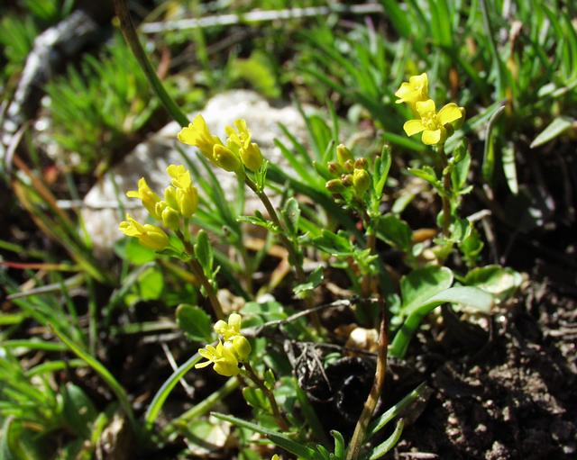 (en) Barbarea verna, a photography originating of the internet site The accord of the autor, H. Brisse, is here. (fr) Barbarea verna, une photographie issue du site internet L'accord de l'auteur, H. Brisse, se situe ici.